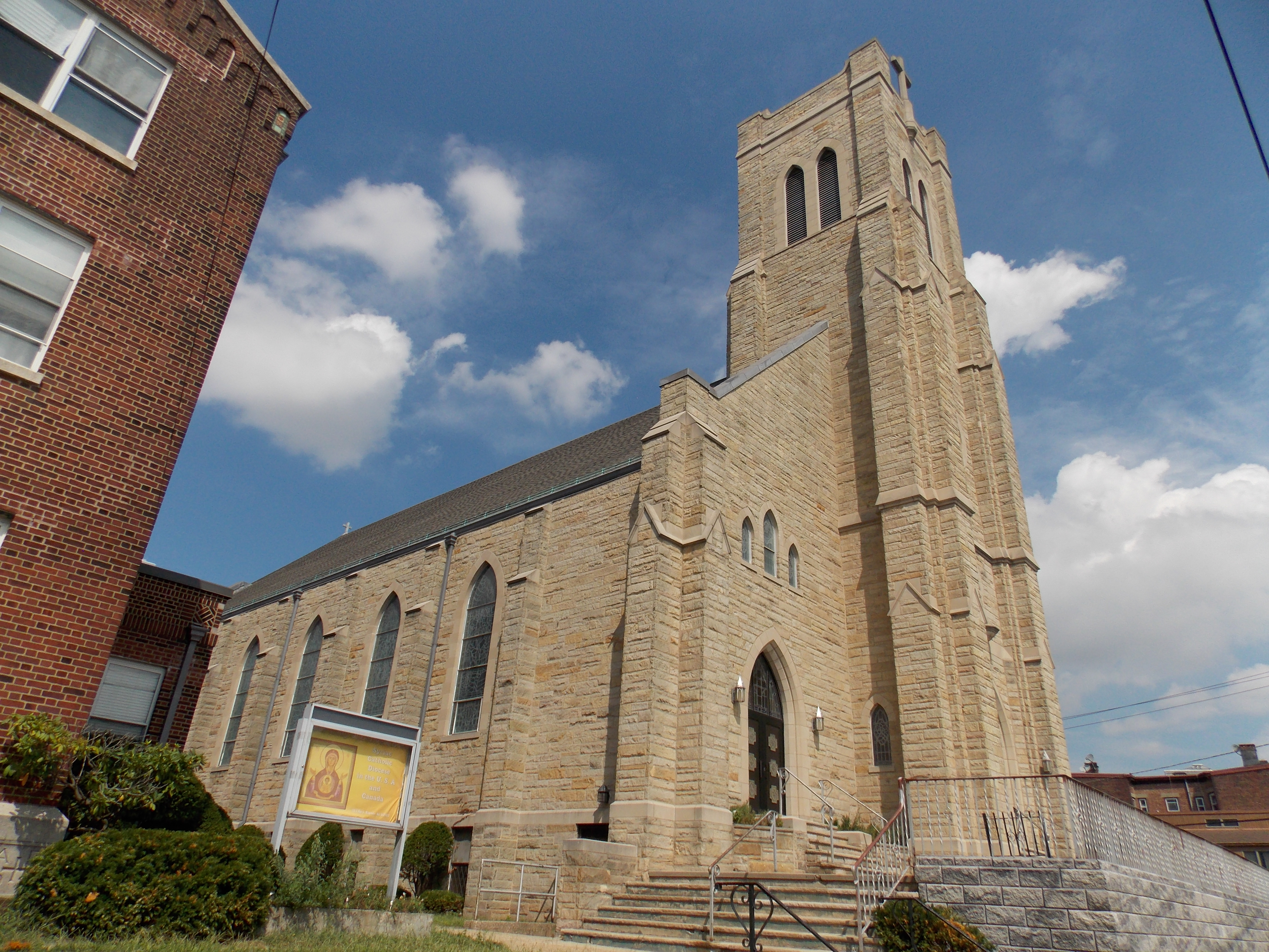 St. Joseph Syriac Catholic Cathedral in Bayonne, New Jersey; Eparchy of Our Lady of Deliverance of Newark.